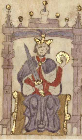 Peter I of Aragon